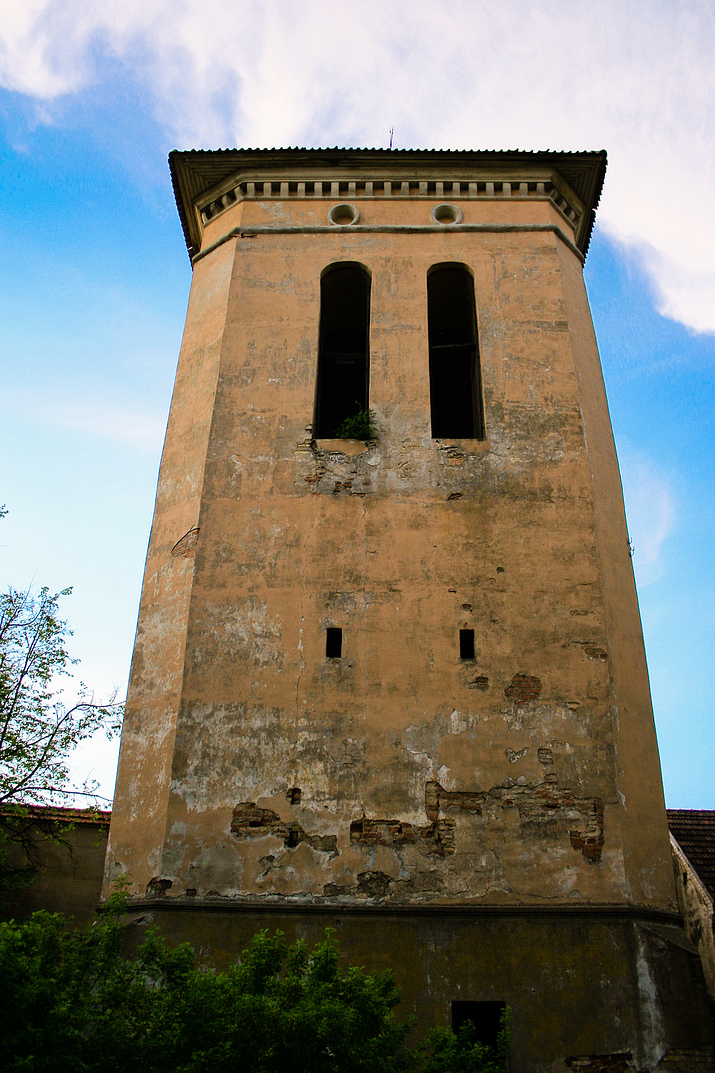 Holy Trinity Greek Orthodox church